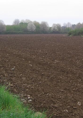 Brown soil after plowing, Lombardy